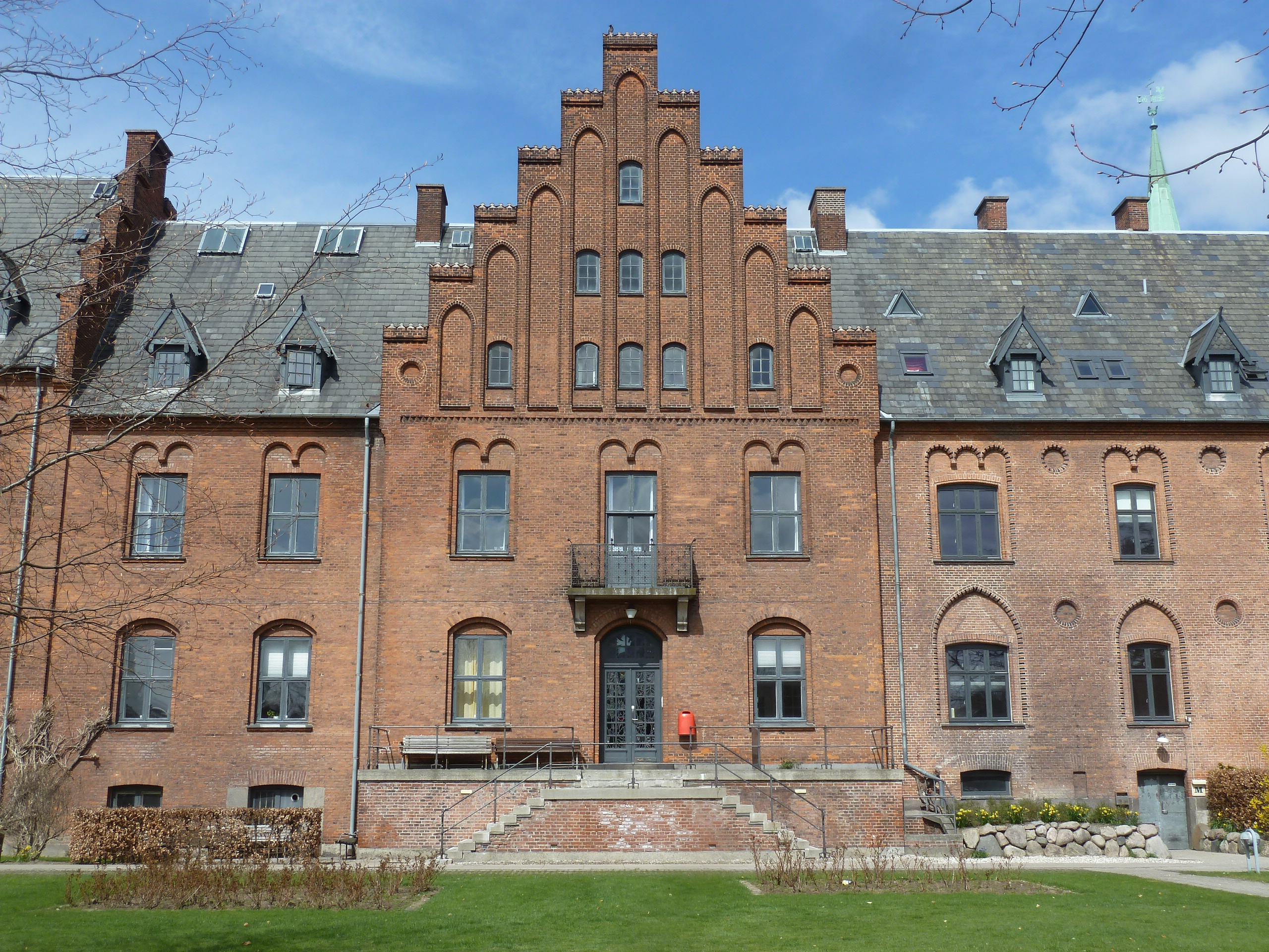 Diakonissestiftelsen in the Frederiksberg district of Copenhagen, Denmark